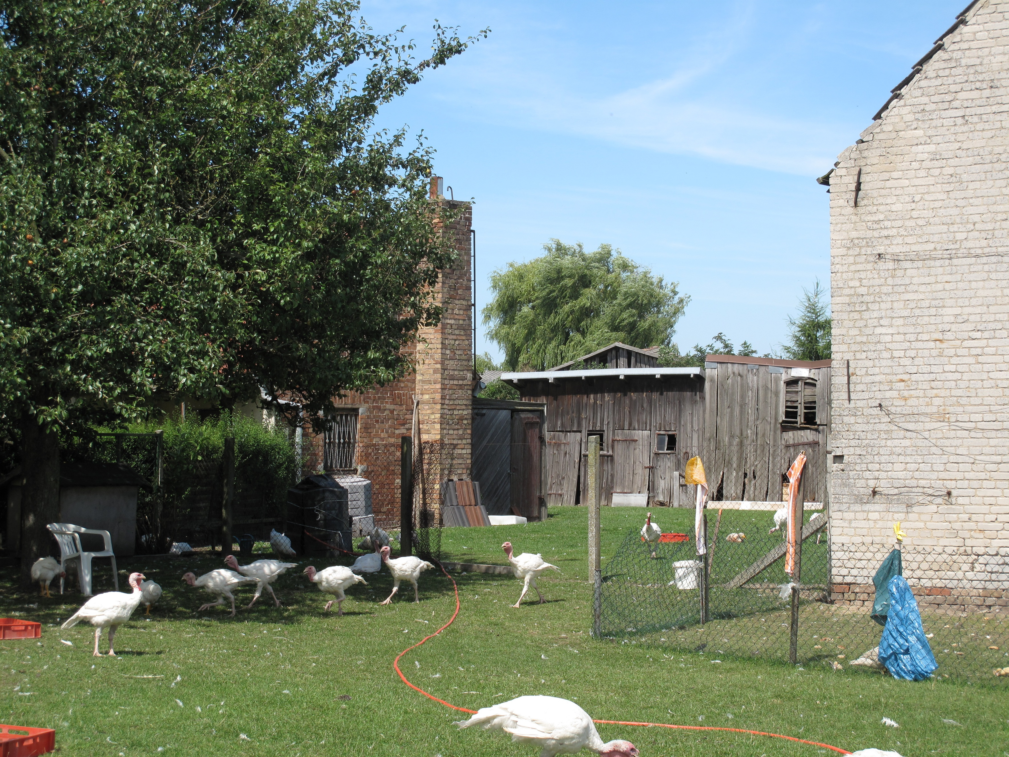 Gottesgabe (german for: god's gift) is a part of Altfriedland, a village of the municipality Neuhardenberg in the District Märkisch-Oderland, Brandenburg, Germany. In 1304 Gottesgabe was bought by the Cistercian Nunnery Friedland and was used until the 20th-century as folwark by the following Herrschaft Friedland. In todays village there remind to the old folwark some, mostly dilapidated farm annexes and barns as well as rail profils; some buildings have been restored.